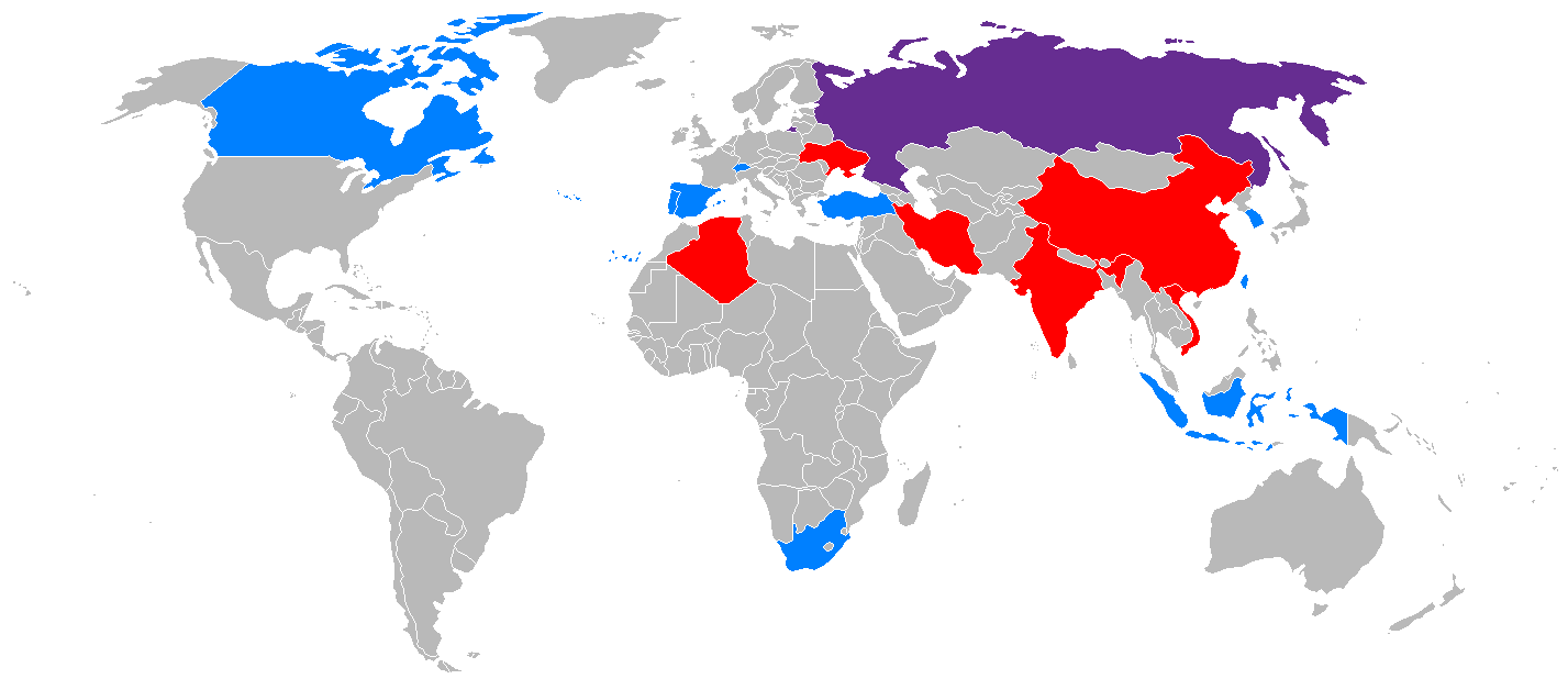 World map of Kamov Ka-27 operators